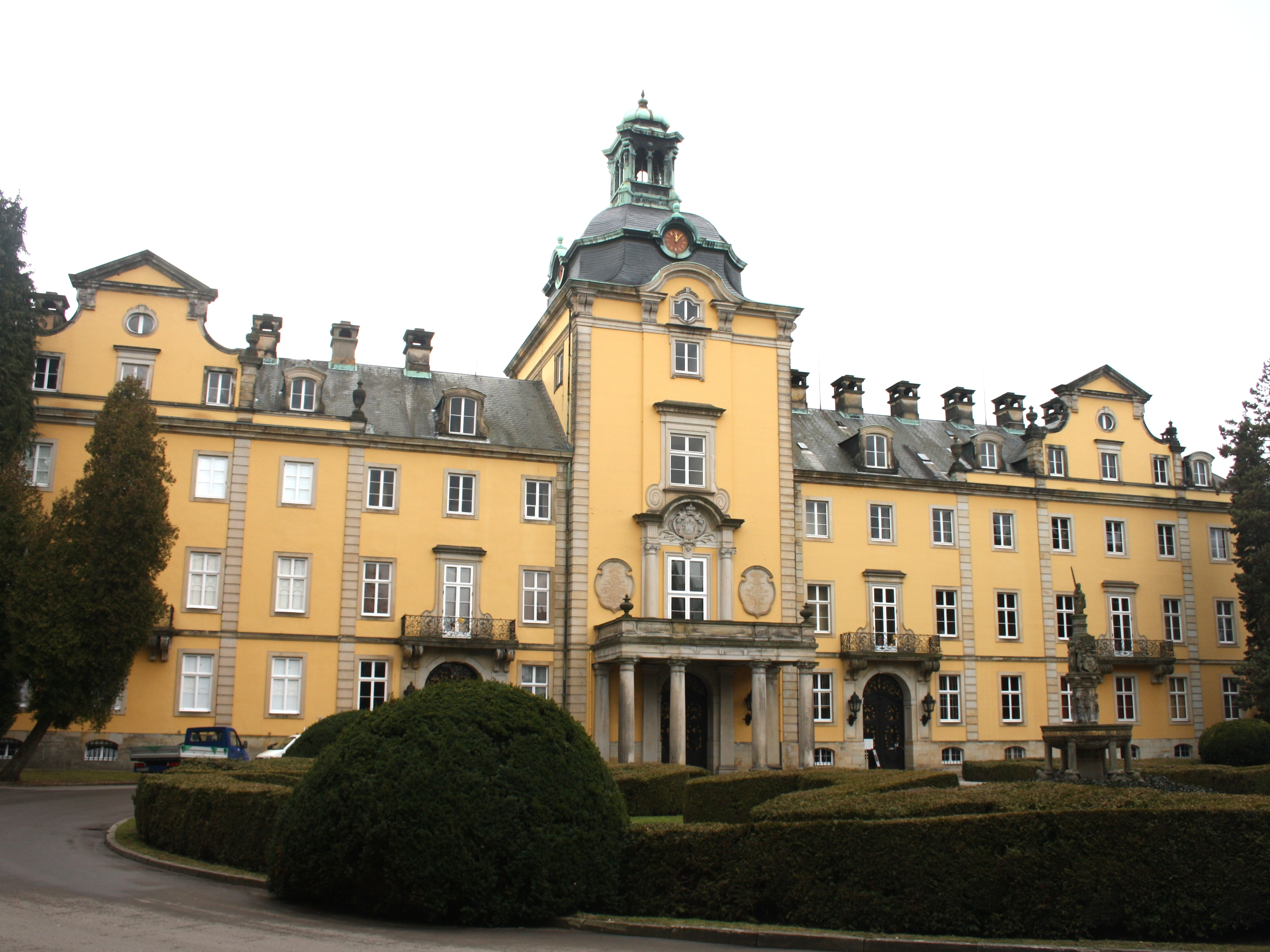 Castle in Bückeburg, Germany. Baroque fassade with main entrance.